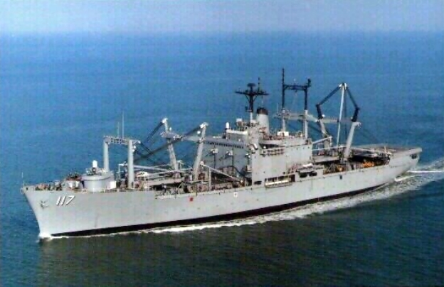 The U.S. Navy amphibious cargo ship USS El Paso (LKA-117) underway in the late 1980s or early 1990s, after the addition of Phalanx CIWS.